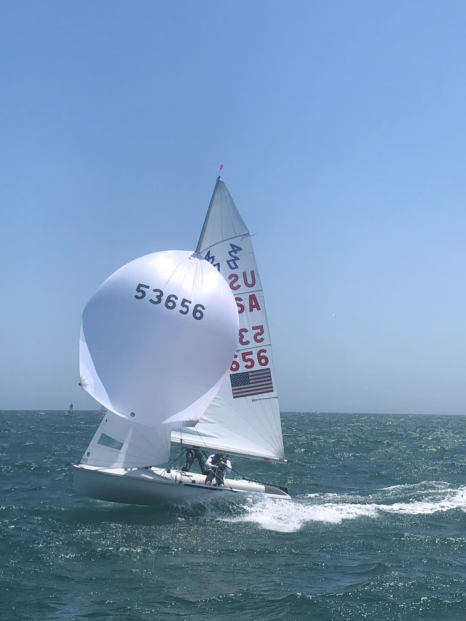 A 420 sailing on a beam reach with spinnaker at US Youth Championships, 2018.